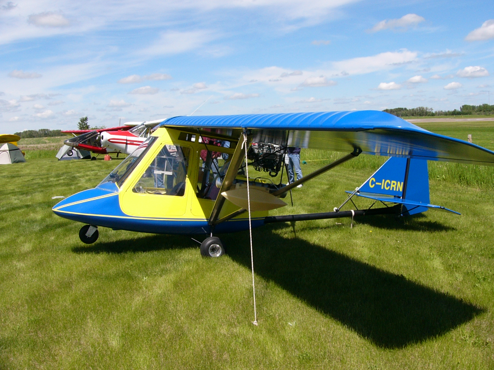 Spectrum Beaver RX 550 with factory enclosure at the Canadian Owners and Pilots Association Convention in Wetaskiwin, Alberta